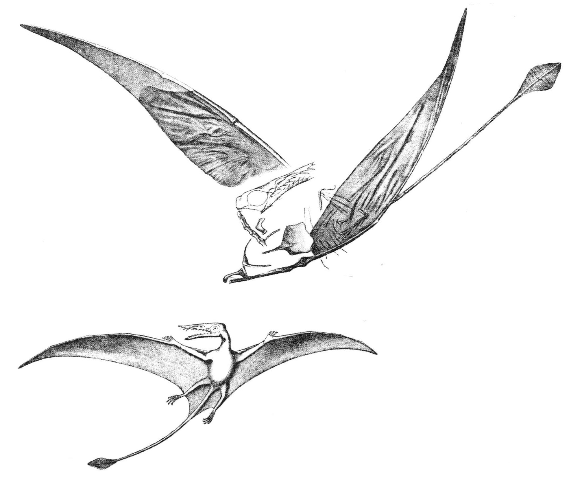 A reconstruction of Rhamphorhynchus by American palaeontologist Othniel Charles Marsh (1831-1899) in 1882.